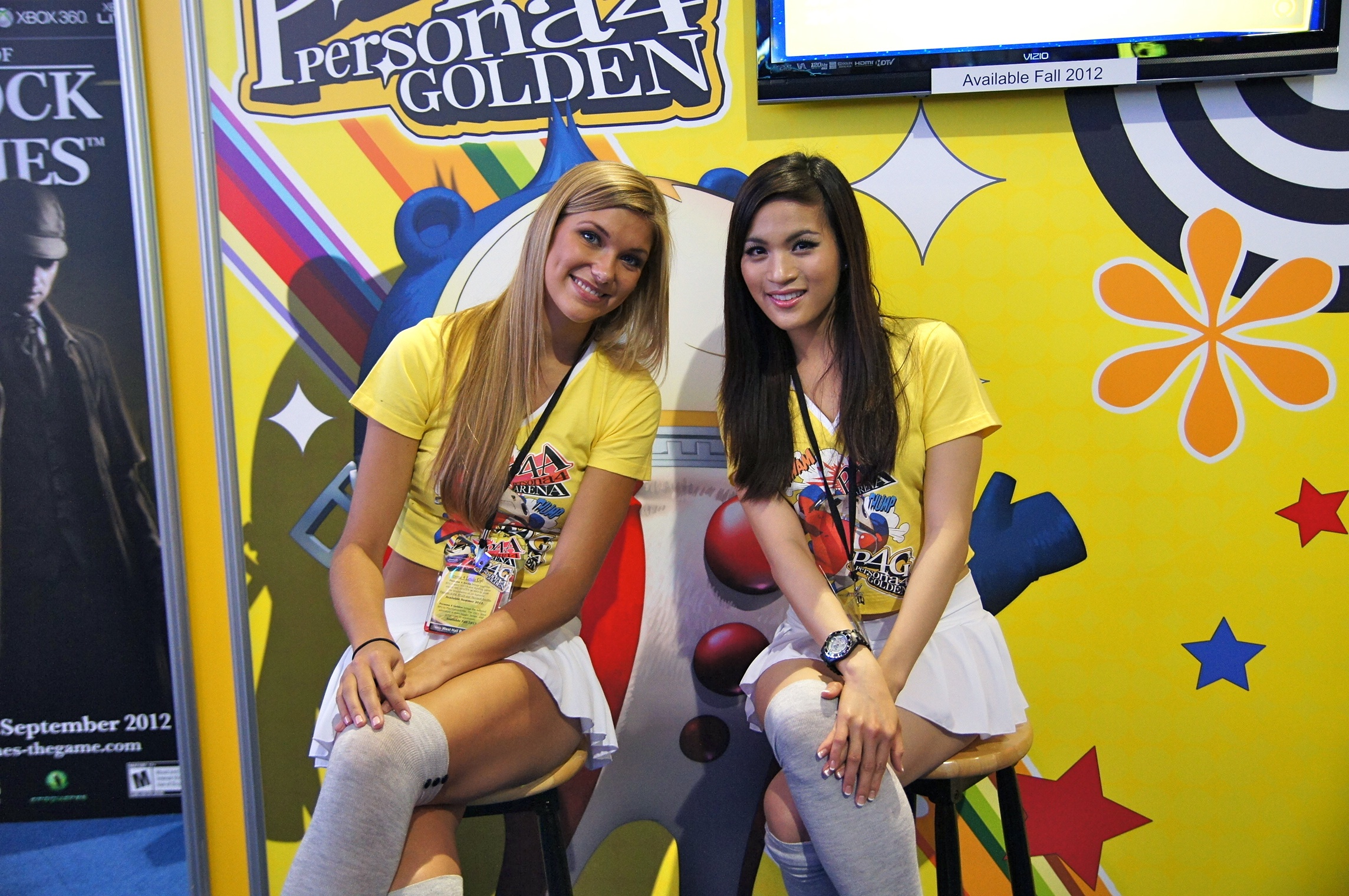 Atlus USA at E3 2012, promoting their game Persona 4 Golden.